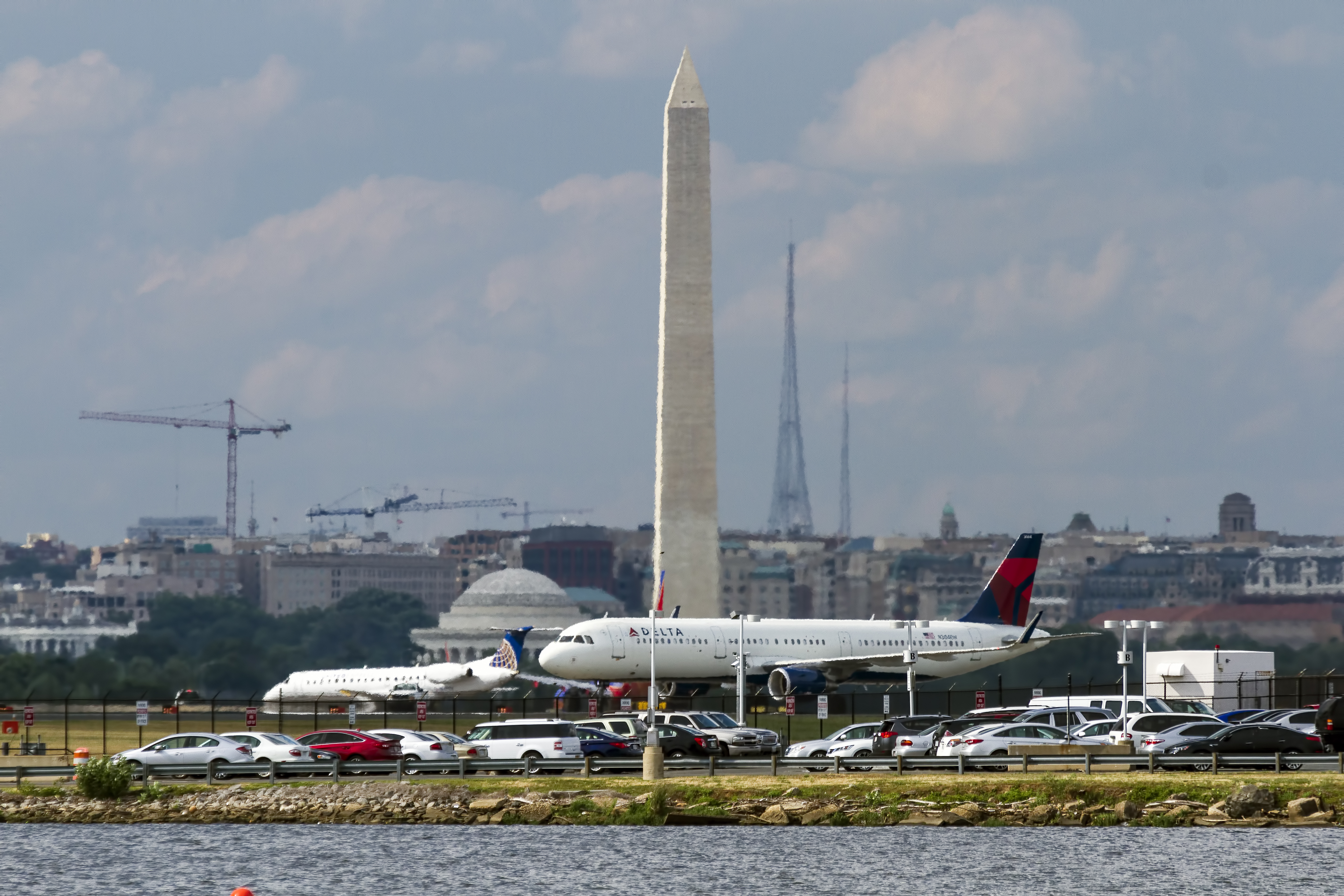 Aircraft at Washington National Airport with Washington beyond in a heat shimmer, Arlington, Virginia, USA